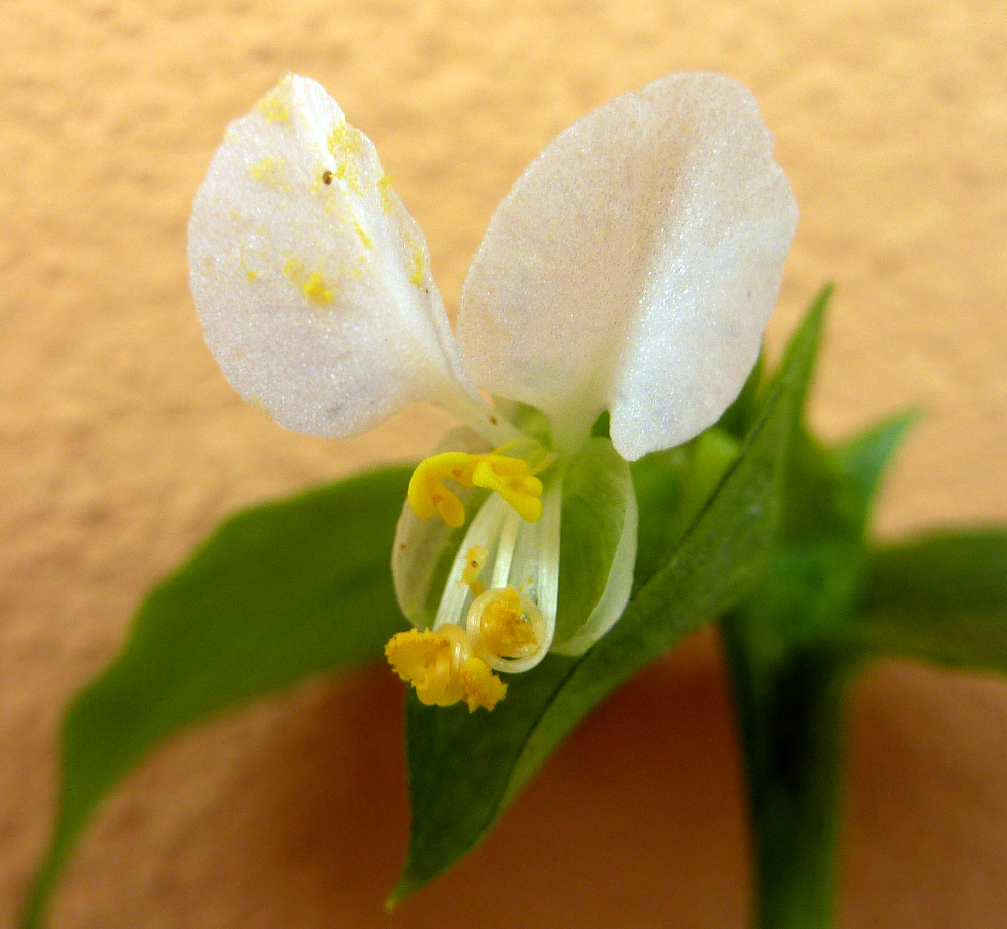 Commelina communis forma alba